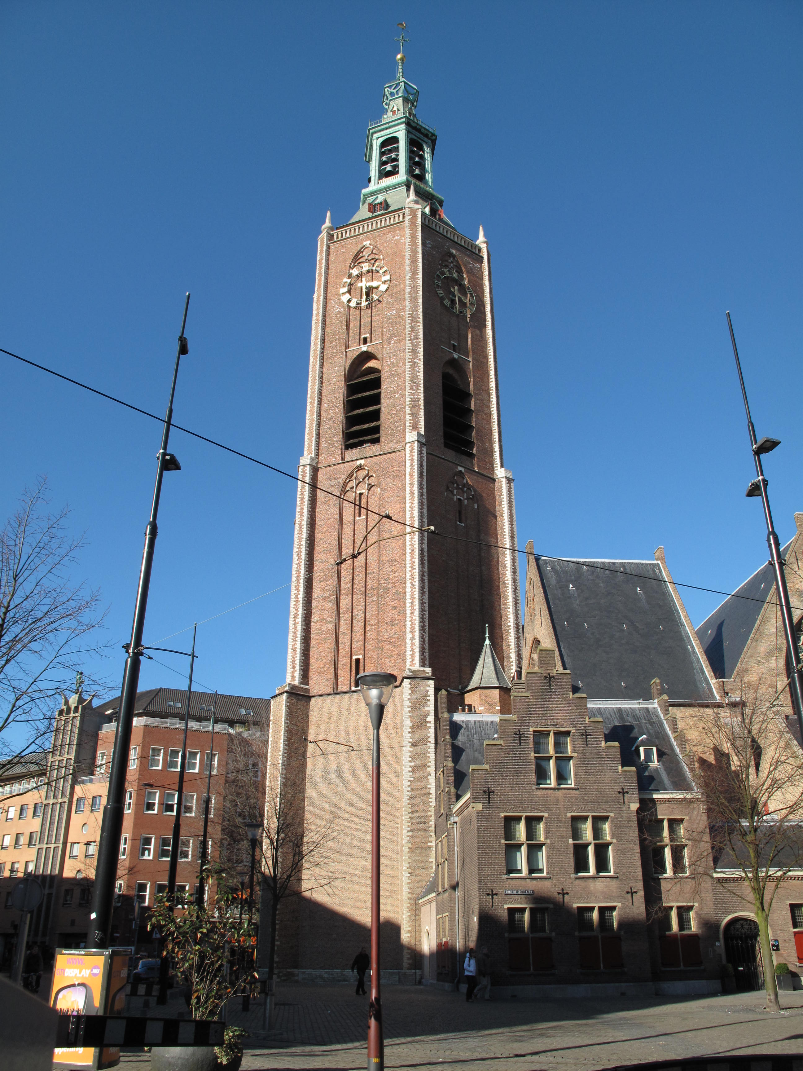 The Hague, church: de Grote Kerk